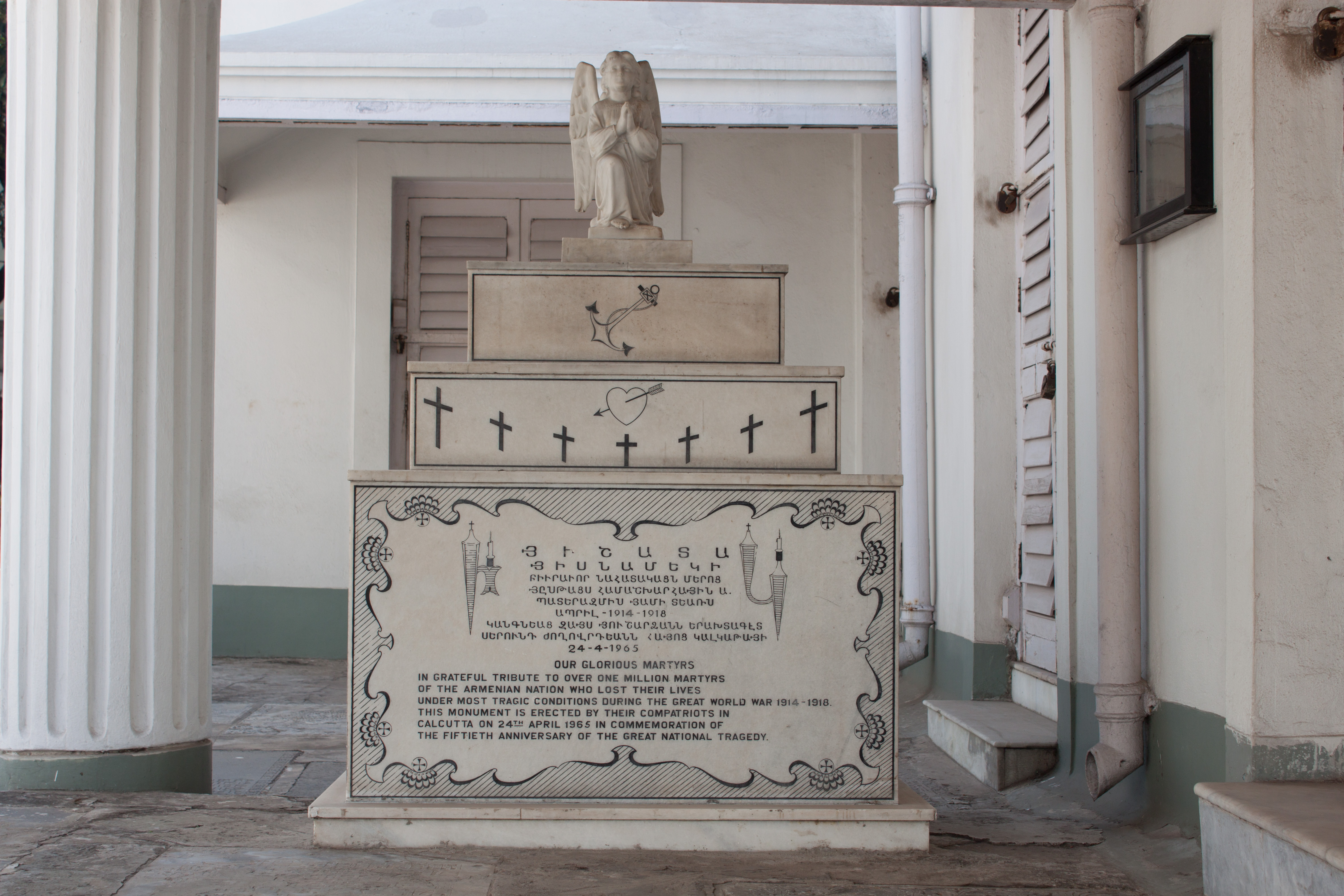 The image is a self taken photograph of the Armenian Genocide memorial erected in 1965 in the premises of the Armenian Church in Kolkata.